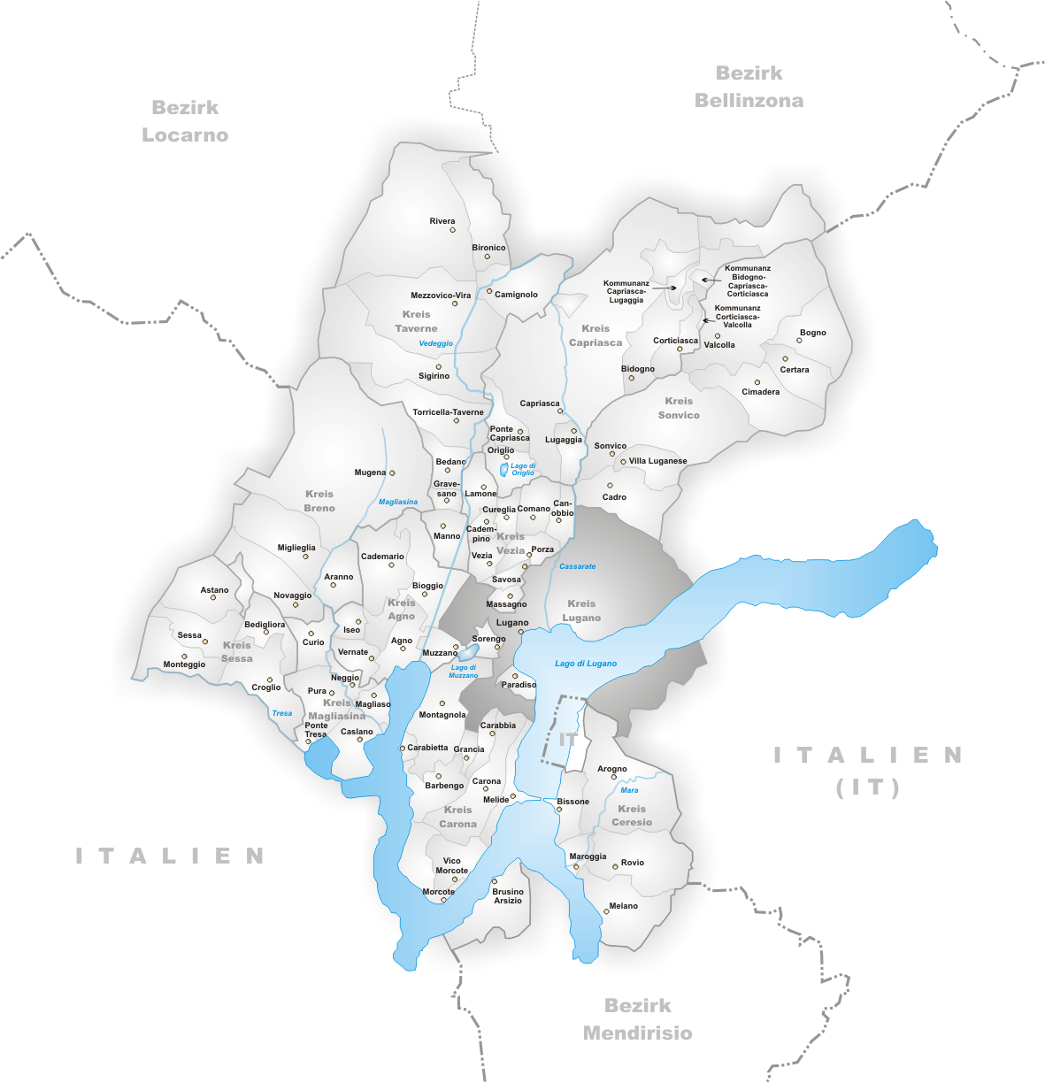 Municipality Lugano